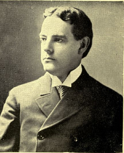 Richard Yates, jr. (Governor of Illinois from 1901 to 1905)